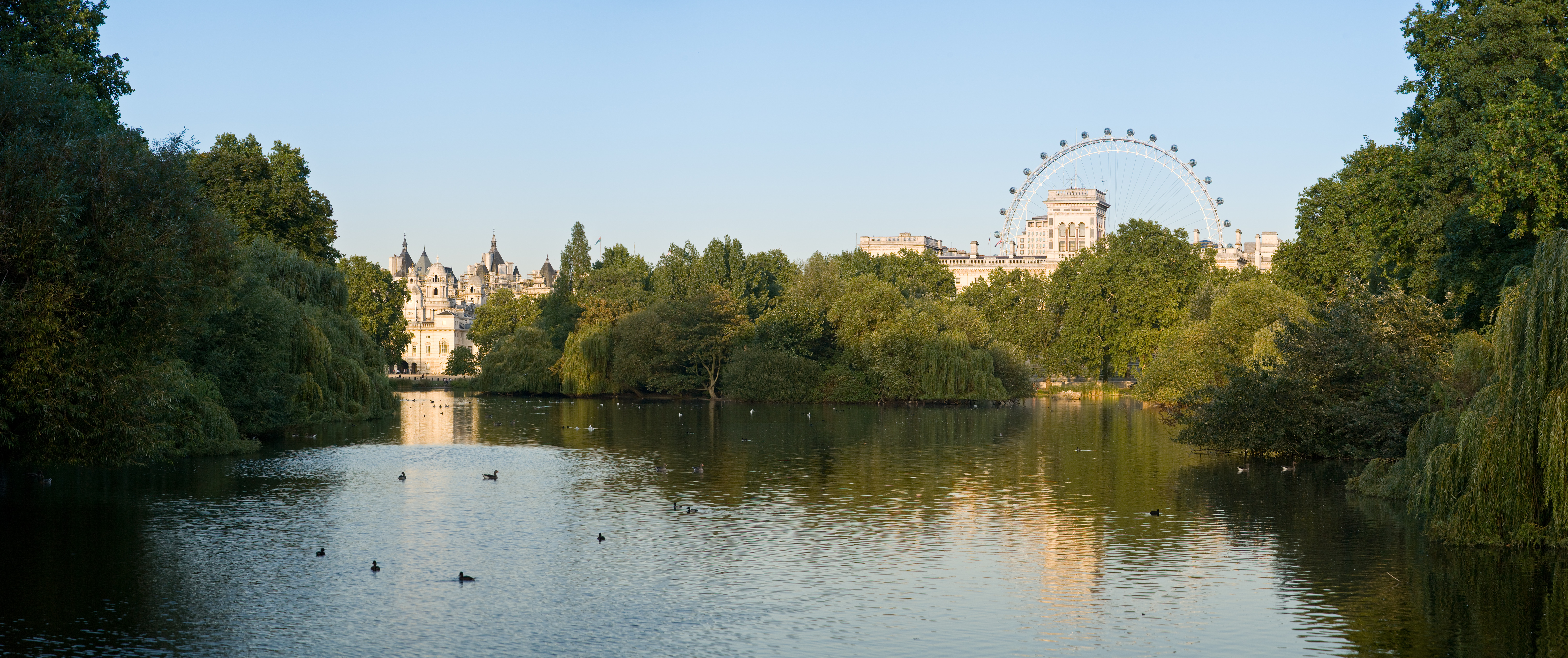 A 6 segment panoramic view of St James's Park Lake, looking east. The Shell Tower and the London Eye can be seen behind the Foreign and Commonwealth Office.